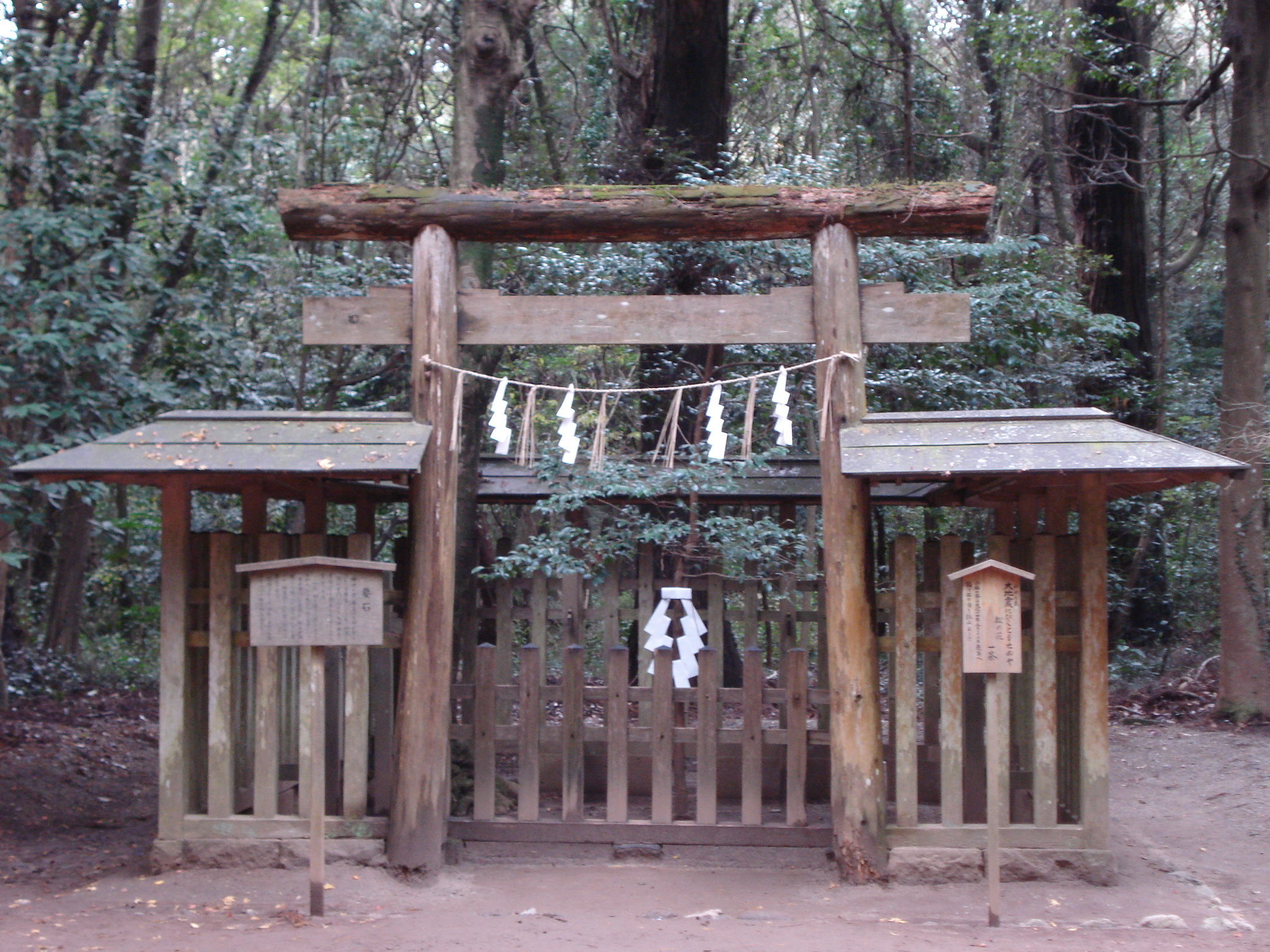 "Kanameishi" stone in Kashima-jingu Shrine (Kashima-city, Ibaraki)